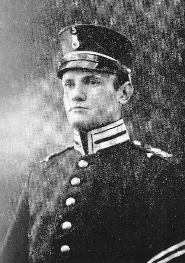 Swedish police officer and SOCO (Scenes Of Crime Officer) Otto Wendel, born 1898, deceased 1985